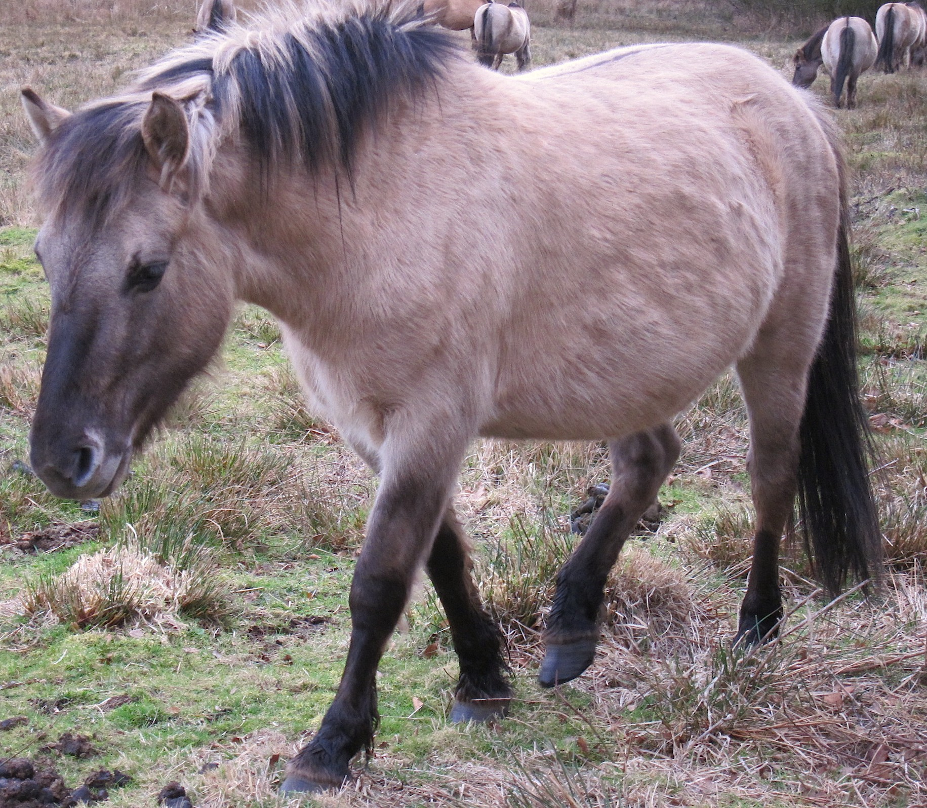 Konic pony (Equus ferus caballus) walking